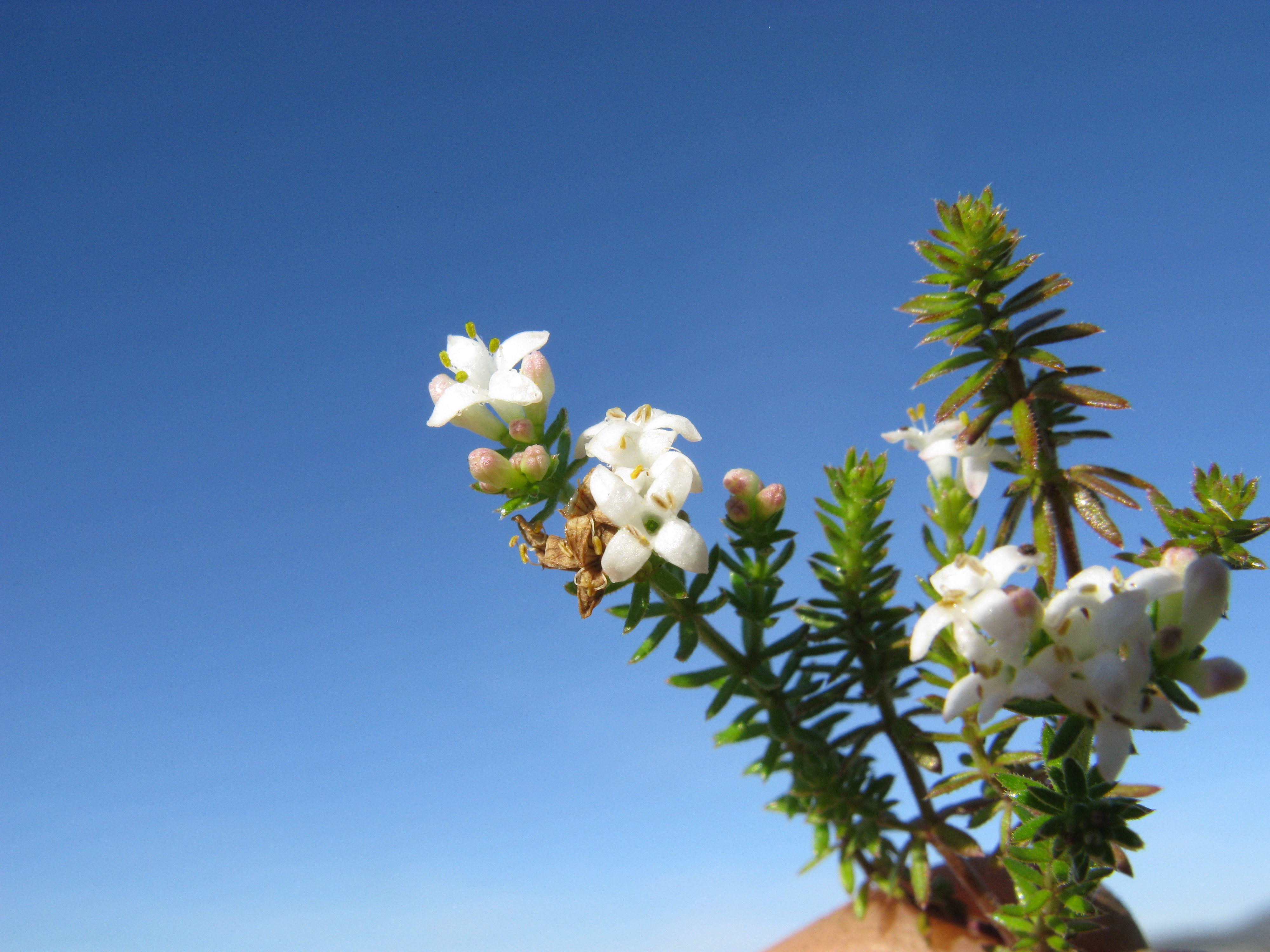 Native, cool season, perennial, erect to decumbent herb which can be somewhat woody at the base. There are male and female plants. Stems are mostly to 20 cm long, usually much-branched and with sparse, short, recurved hairs. Leaves and stipules are in whorls of 5 or 6, linear and 2–8 mm long; apex is acute to shortly acuminate usually with a short point; margins and midrib are more or less scabrous. Flowerheads are terminal or in the uppermost axils and 1–3-flowered. Flowers are unisexual, 4-petalled, white and 2–3 mm long. Styles are 2-fid. Stamens 4. Fruit are 3–4 mm long, deeply lobed, black-brown. Flowering is in spring and summer. Grows in woodland, forest and grassland, common and widespread.